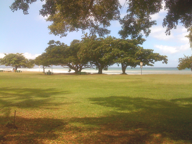 Trees in Honokowai - Maui County, Hawaii.